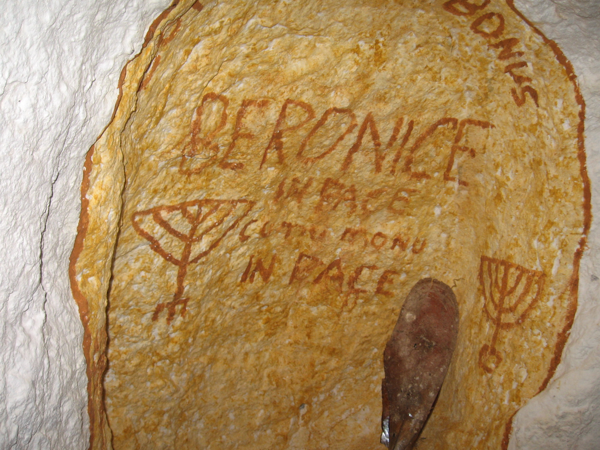 Sant'Antioco: ricostruzione di una catacomba ebraica.